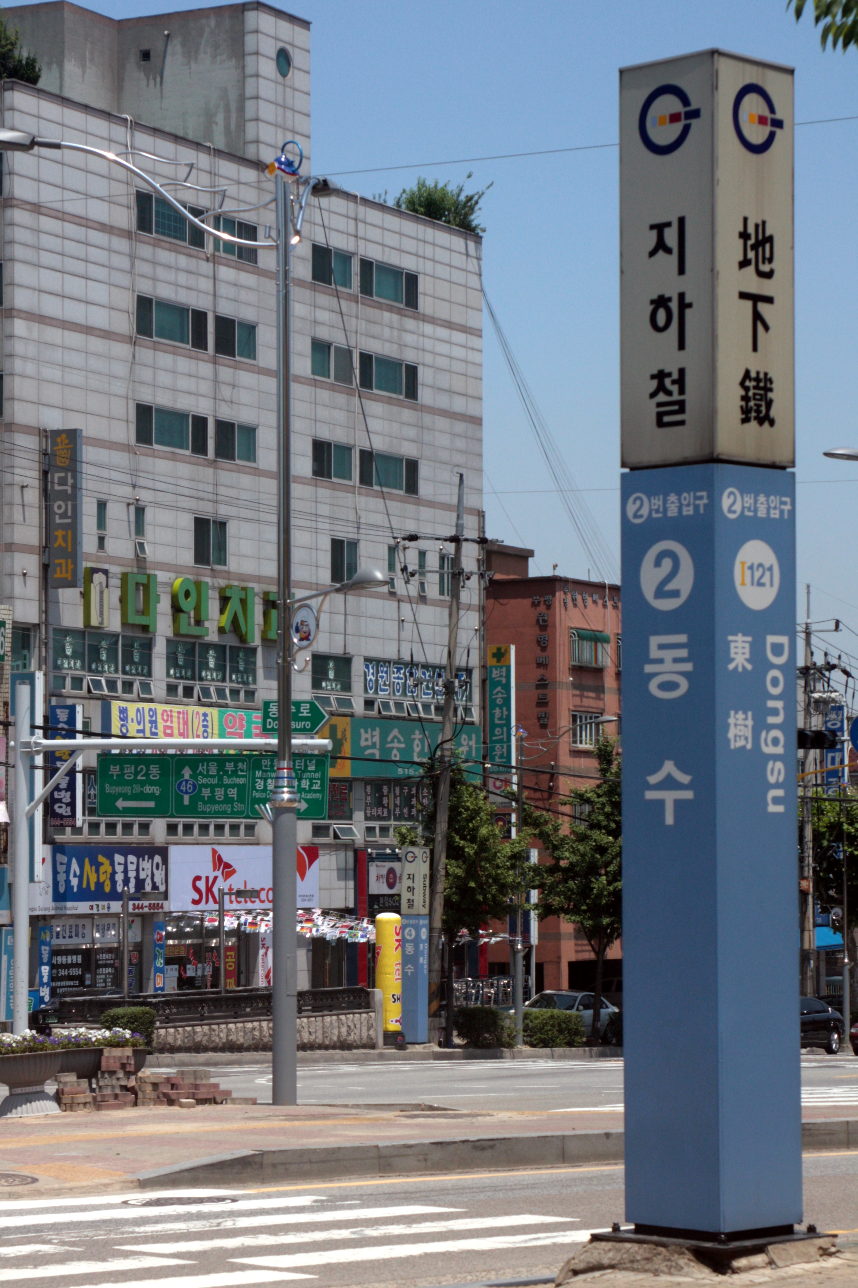 Incheon Subway Line 1 Dongsu Station